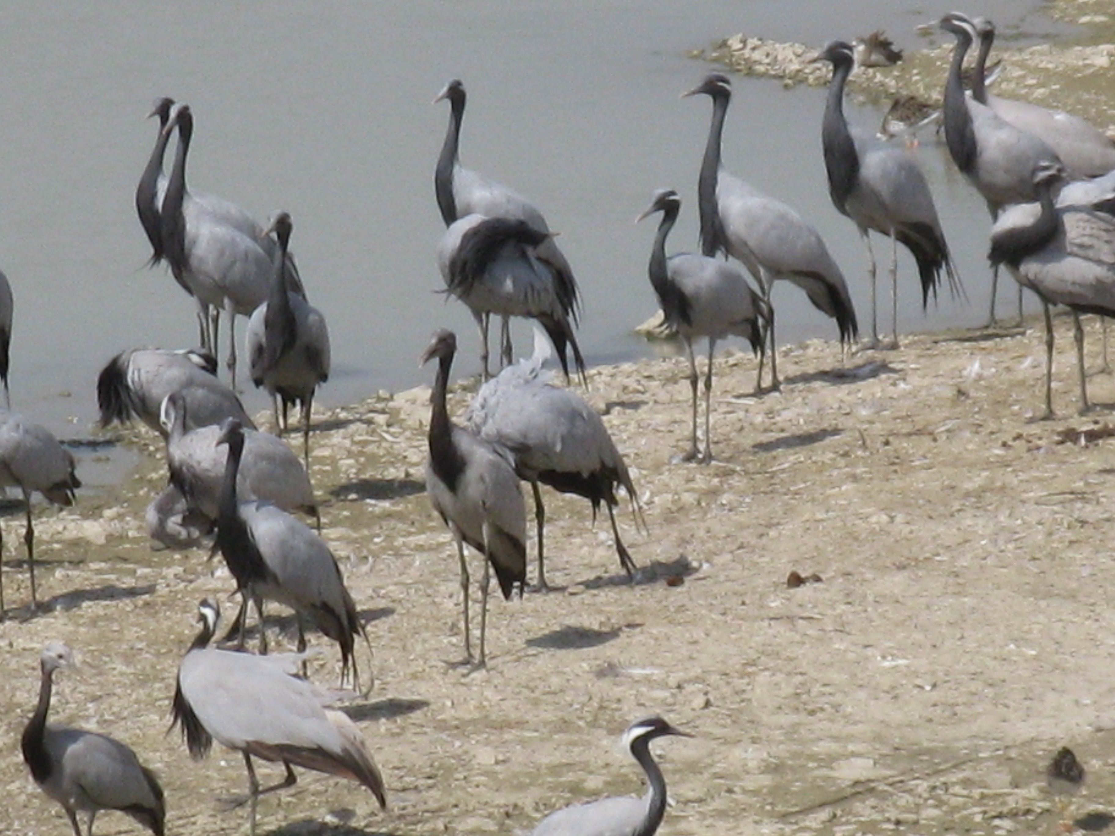 Demoiselle Cranes Grus virgo in Jodhpur, Rajasthan, India.